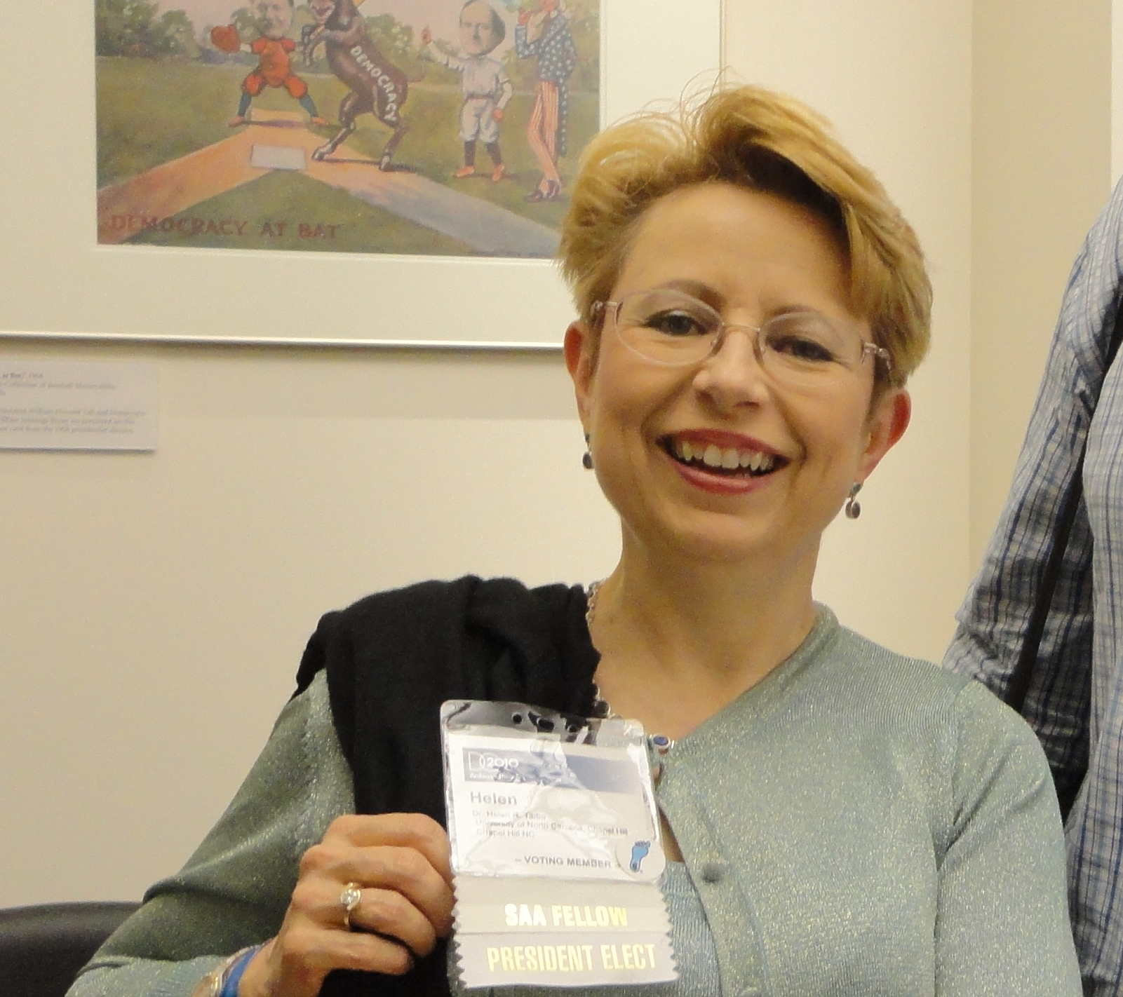 Helen Tibbo, my former professor [and boss] and incoming SAA president, and Cal Lee, my hero [and former professor, master's paper advisor, and amazing mentor].